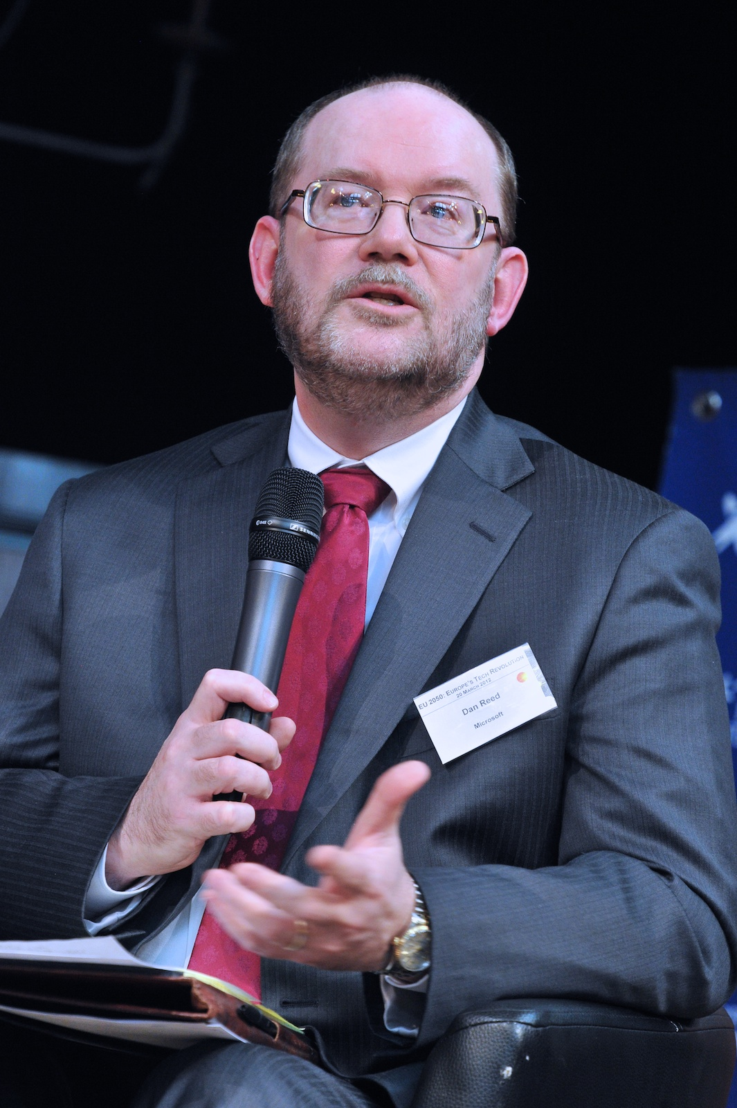 Friends of Europe - EU 2050: Europe's Tech Revolution